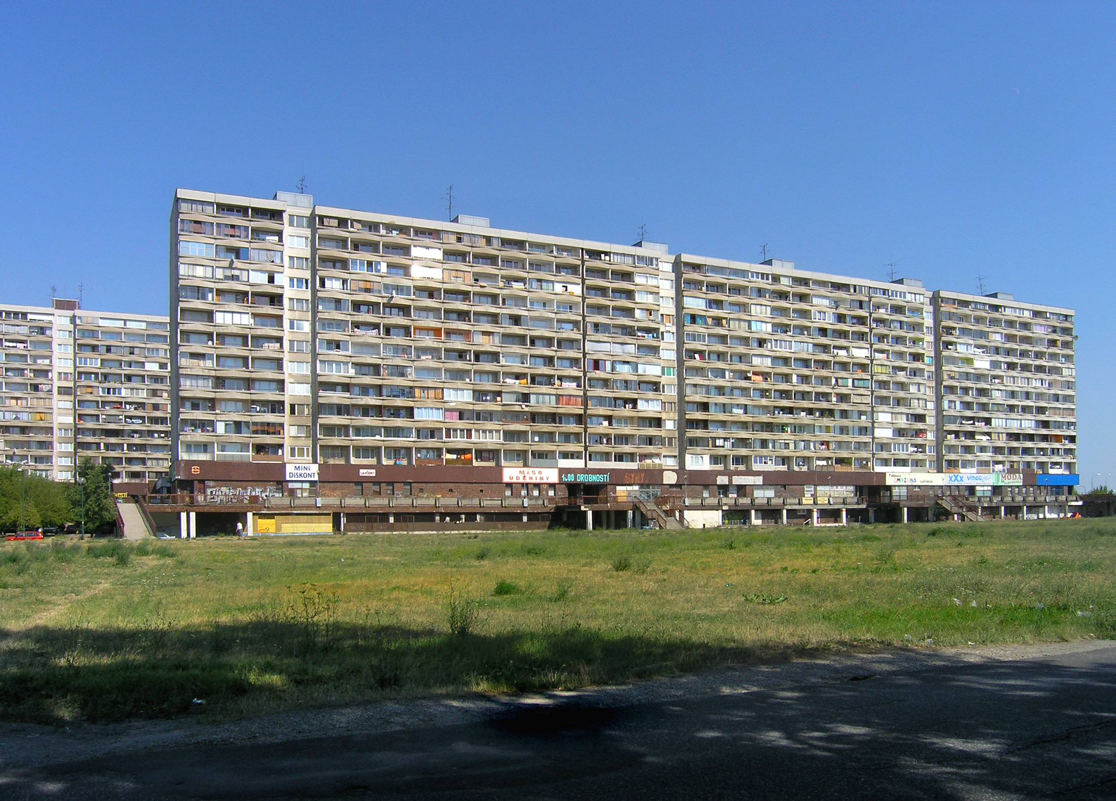 Jasovská street. Bratislava, Slovakia